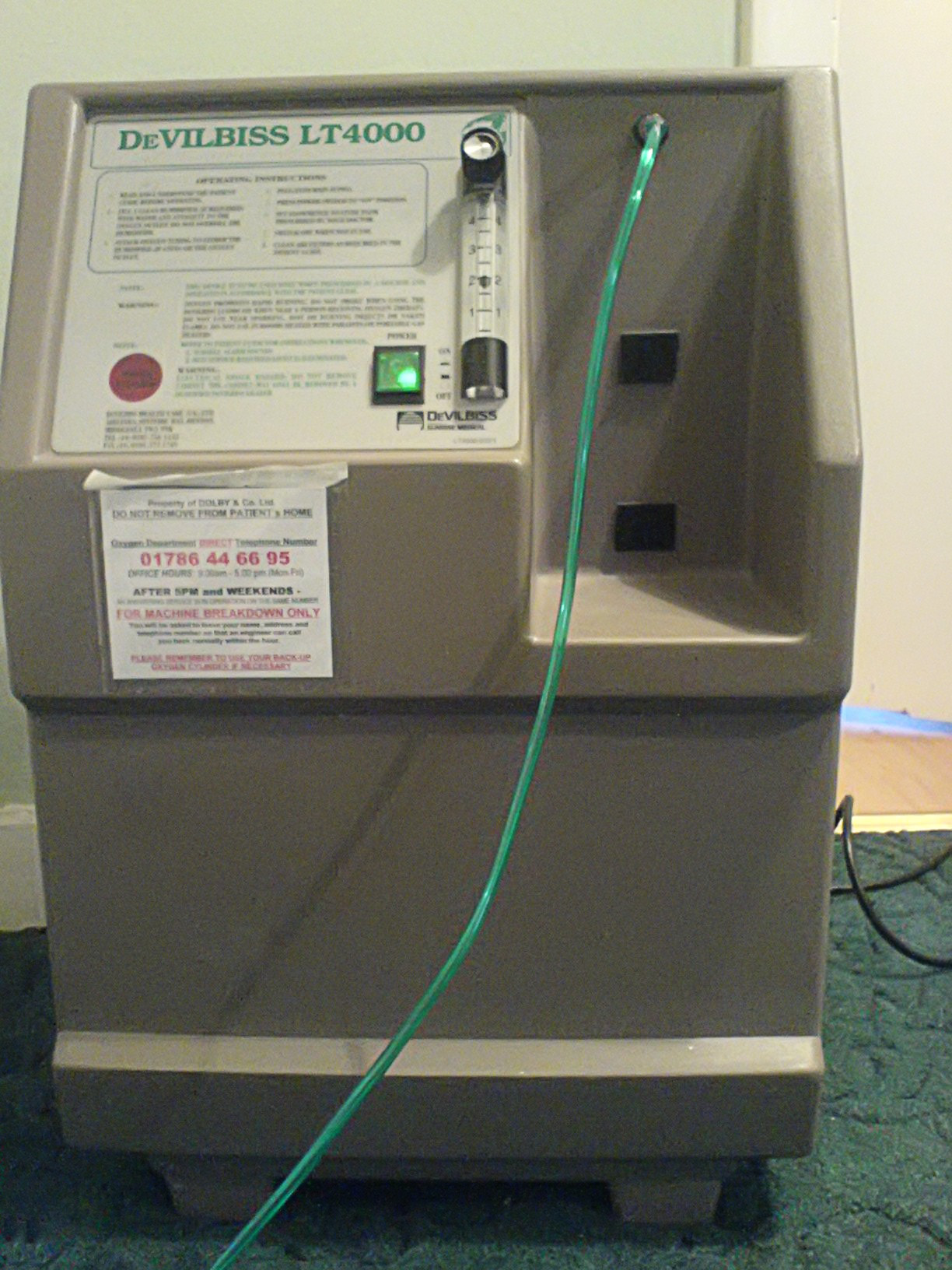 A picture I took on 2nd of July, 2007 showing a home oxygen concentrator. As stated in the license attribution for the picture must be given to me, Patrick McAleer for use outside of Wikipedia.